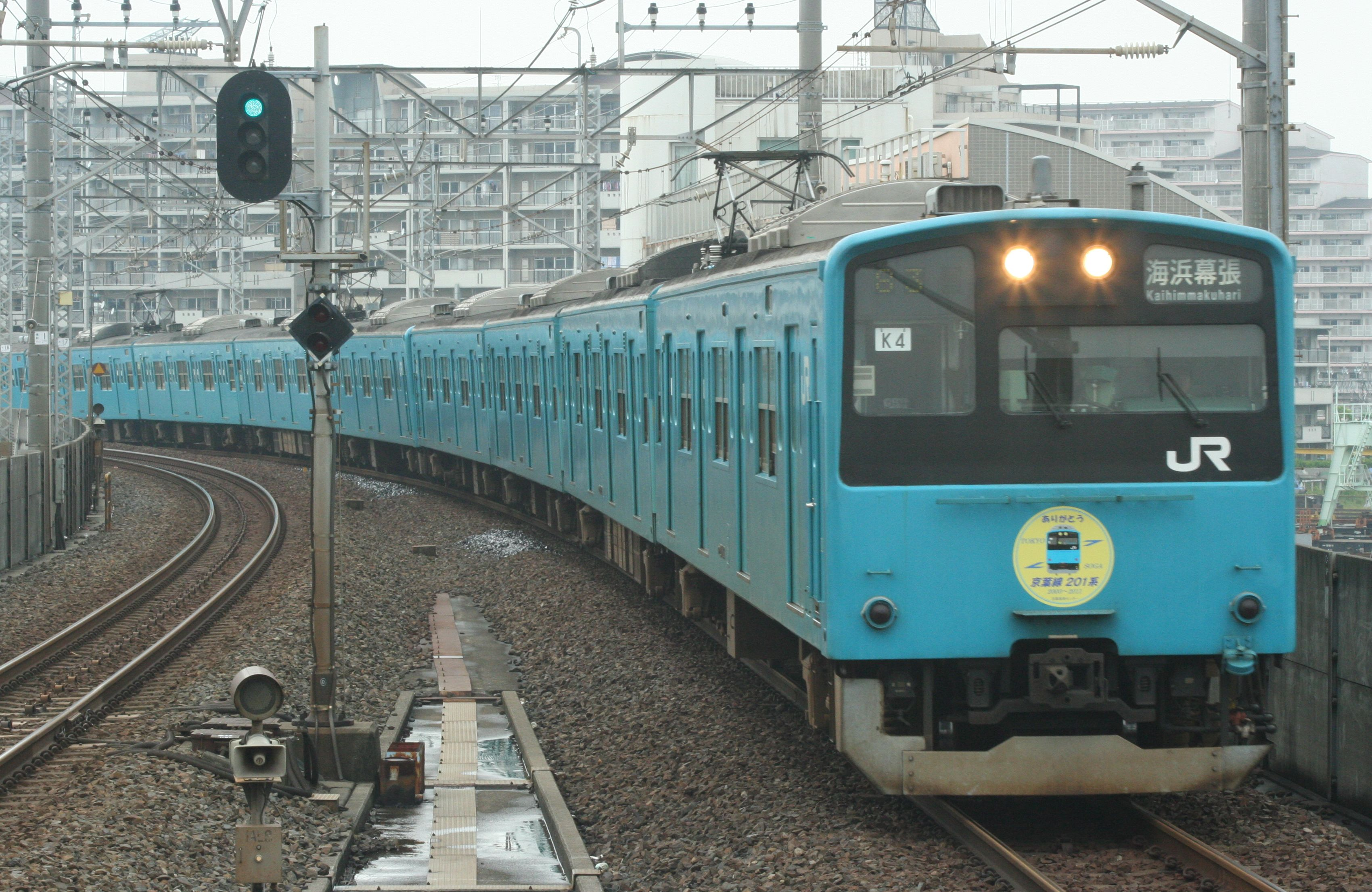 Shiomi Station on the Keiyo Line